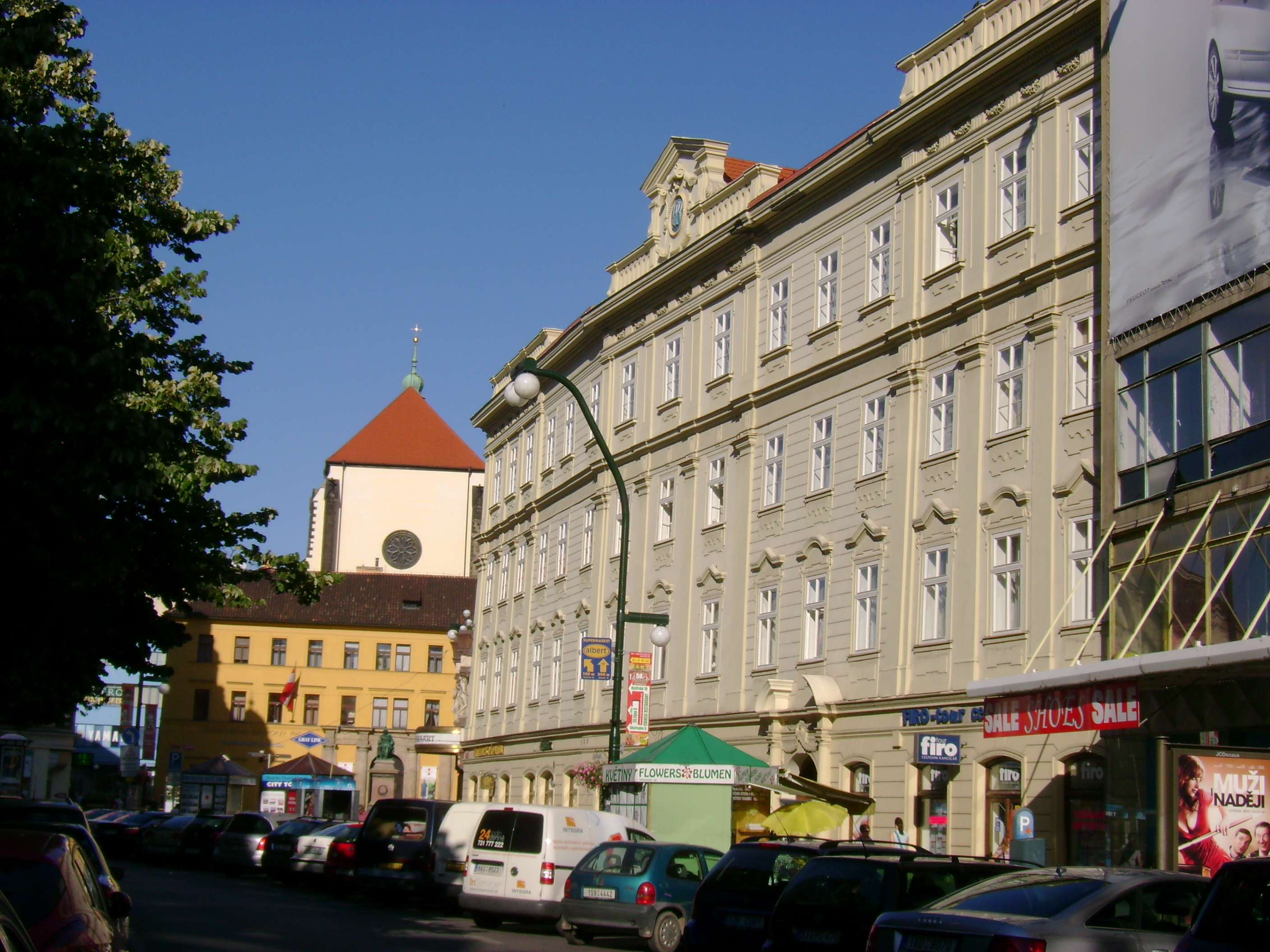 Národní street in New Town, Prague.